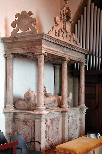 St Owen's Church, Bromham, Beds - Monument to Sir Lewis Dyve (1599–1669), MP, a Royalist adherent during the Civil War. Left: Arms of Dyve: Gules, a fesse dancettée or between three escallops ermine